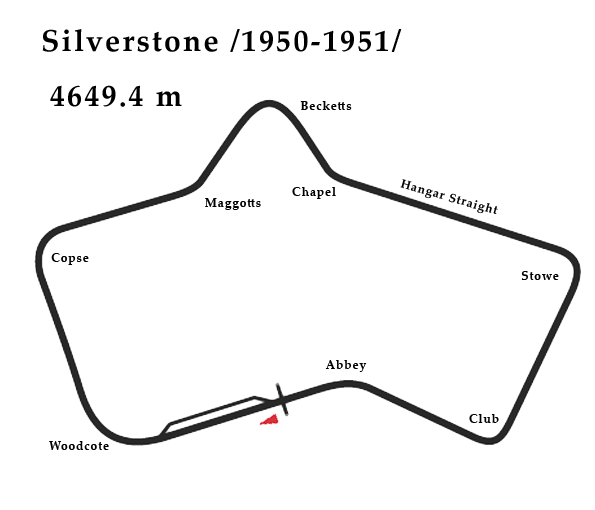 Grand Prix F1 1950 - 1951